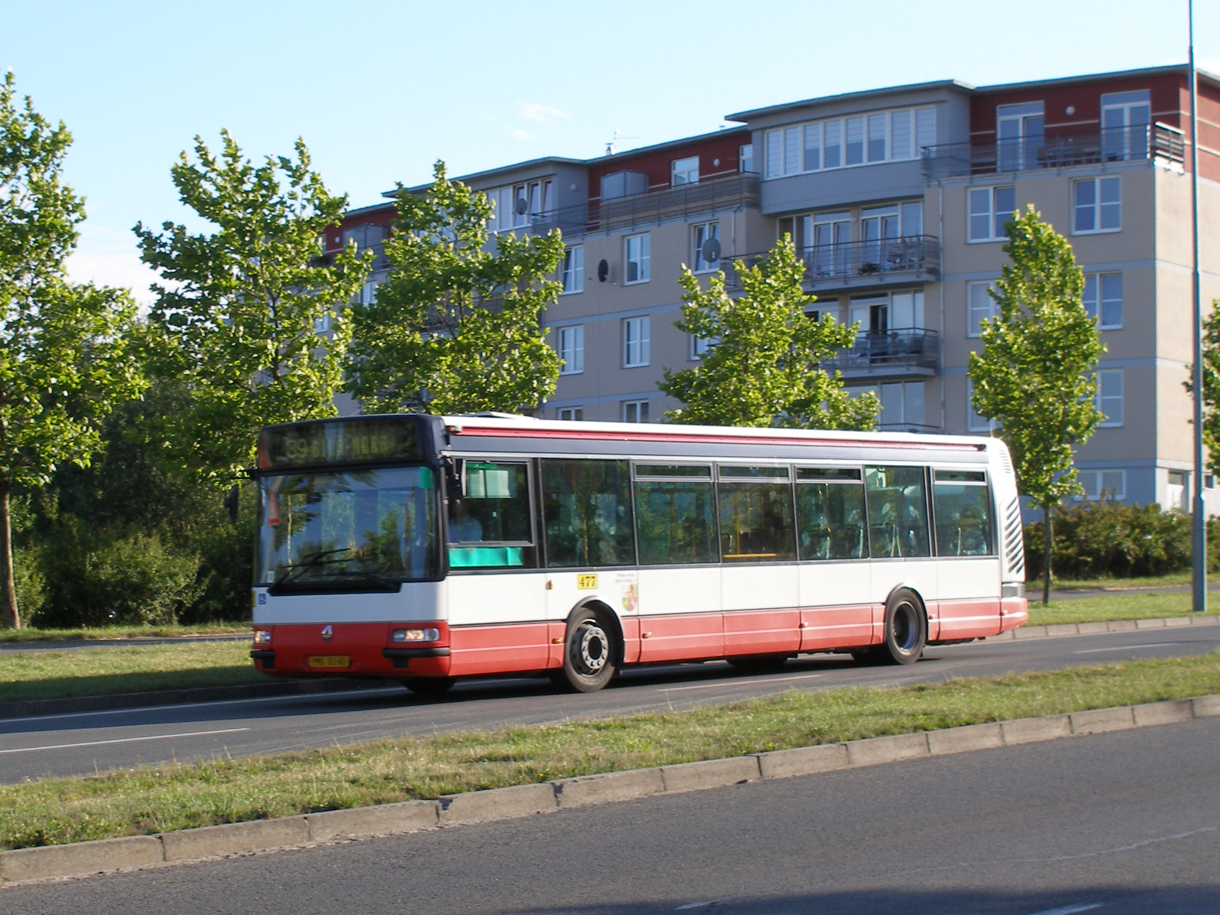 Karosa-Renault CityBus 12M in Plzeň, Czech Republic.